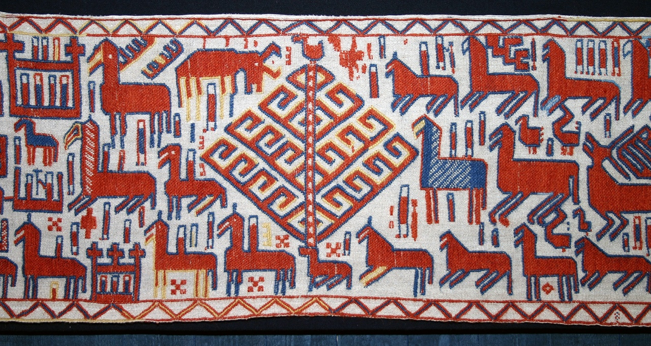 Detail from one of the Överhogdal tapestries found 1909 in Överhogdal, Sweden.